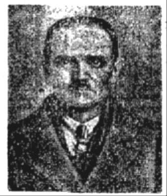 Felix Neumann (1889-?), German communist terrorist